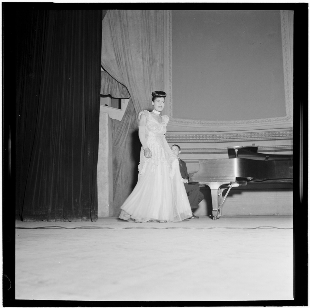 Billie Holiday, Carnegie Hall, New York, N.Y., between 1946 and 1948